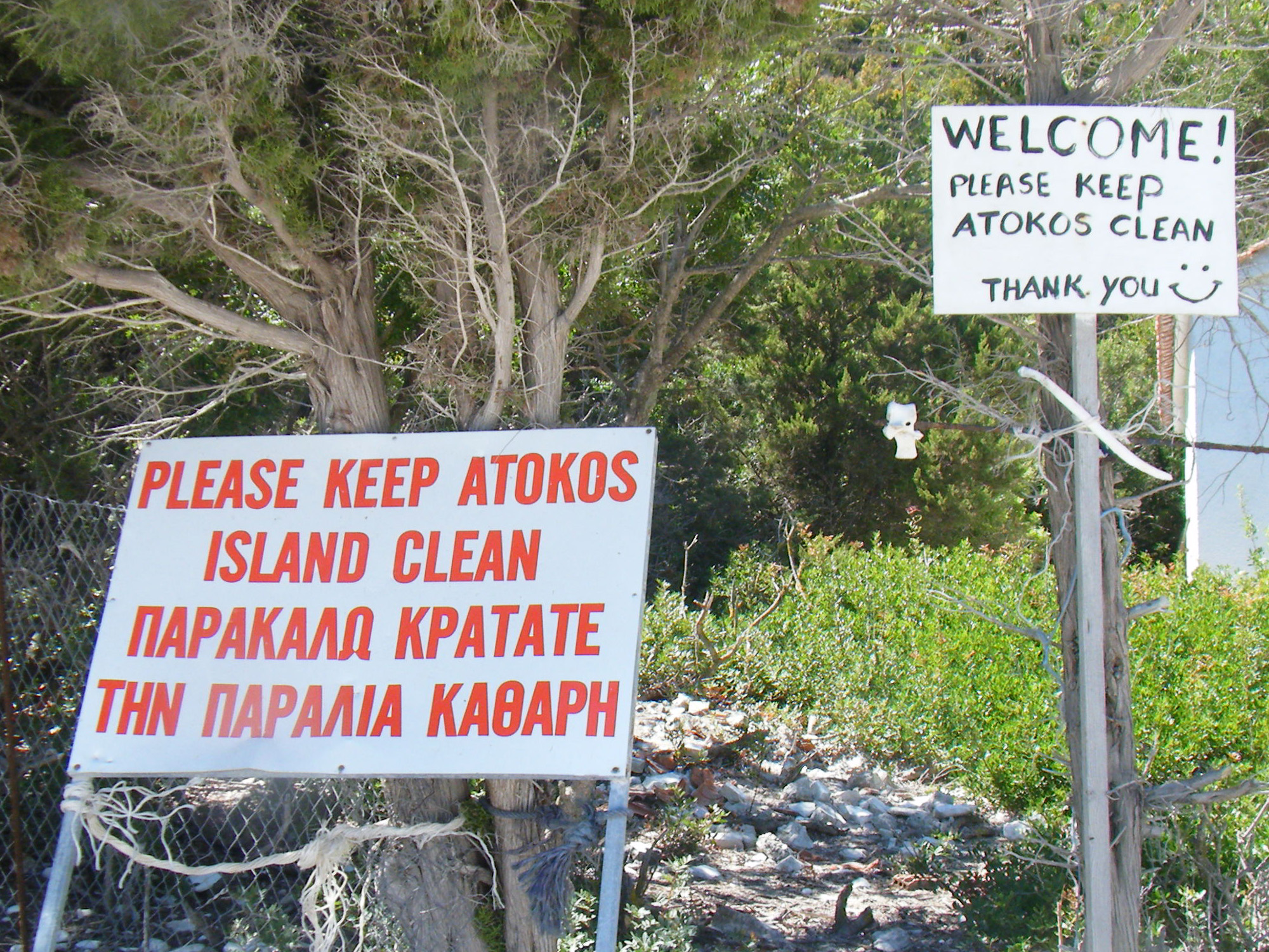 Welcome sign on Atokos' One house bay, beach